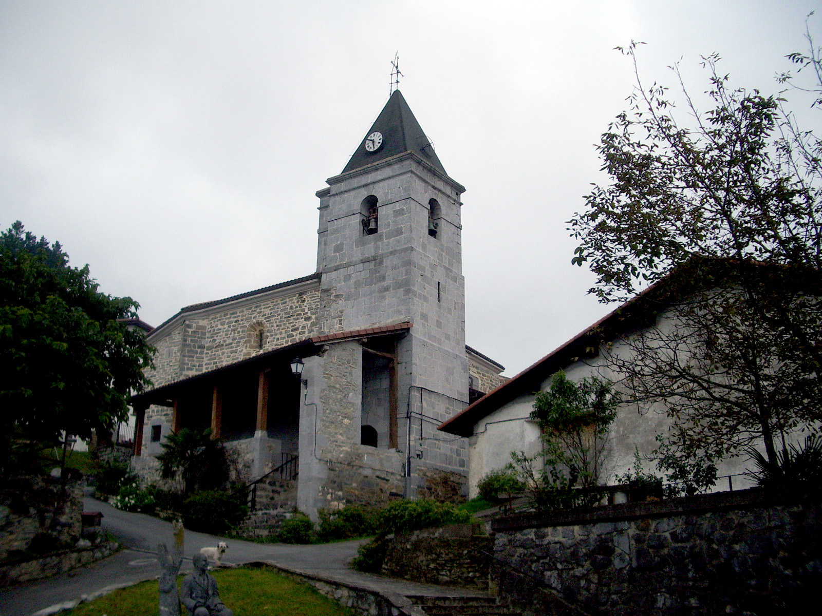 Santa Kutz church at dusk (Orexa, Guipuscoa, Basque Country)